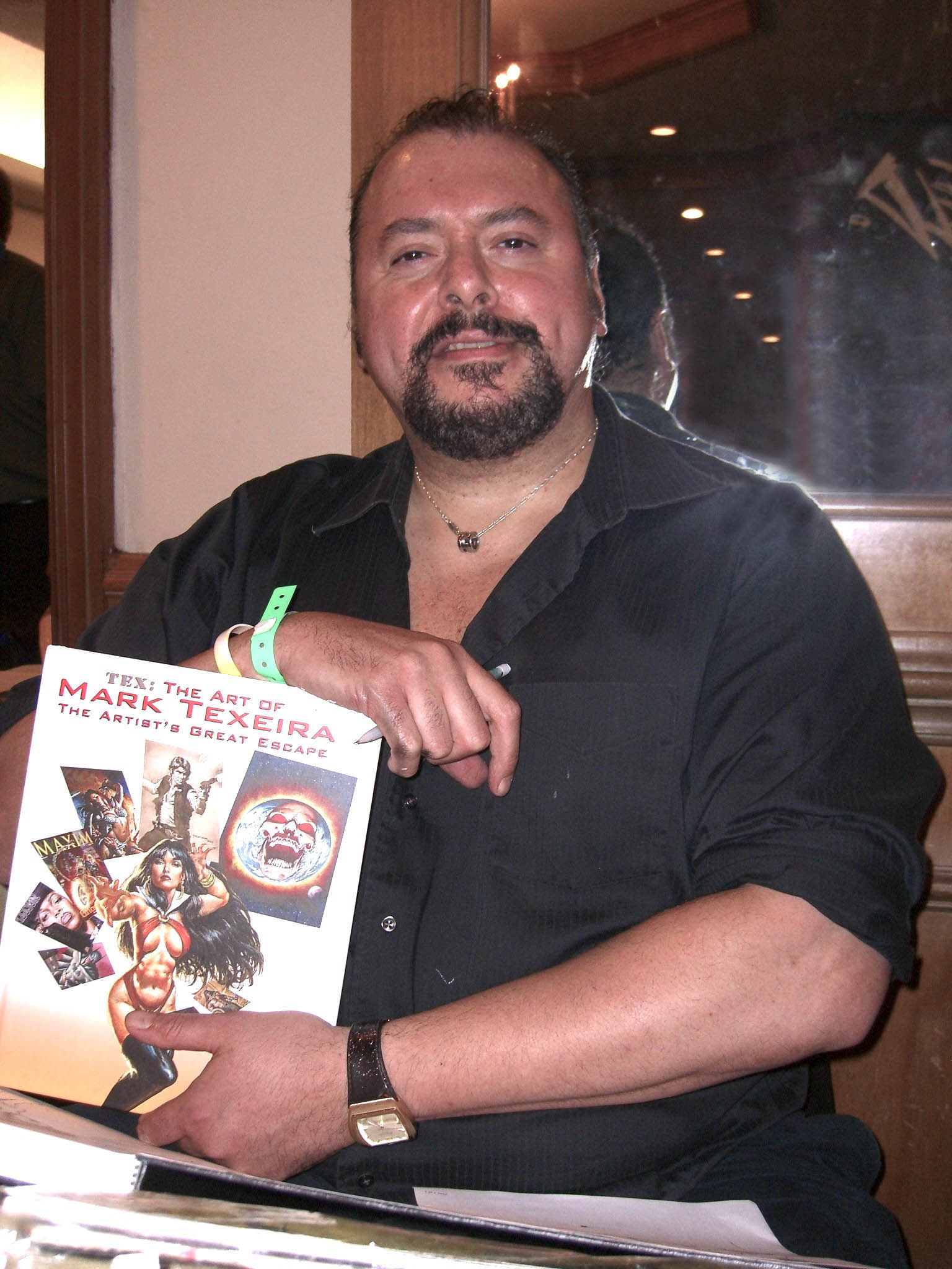 Comic book creator Mark Texeira at the Big Apple Convention in Manhattan, October 2, 2010. This photo was created by Luigi Novi. It is not in the public domain, and use of this file outside of the licensing terms is a copyright violation.